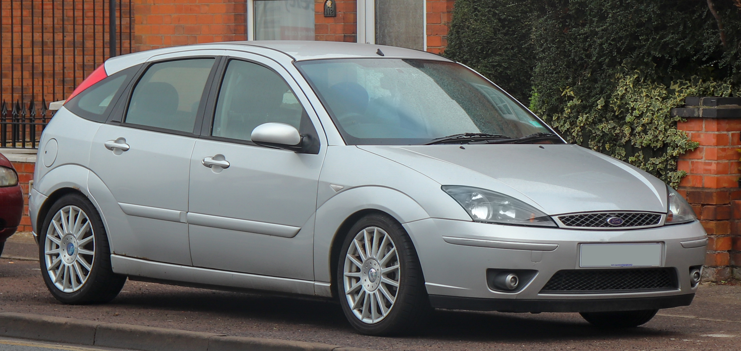 2004 Ford Focus ST170 2.0 Front Taken in Stratford-upon-Avon